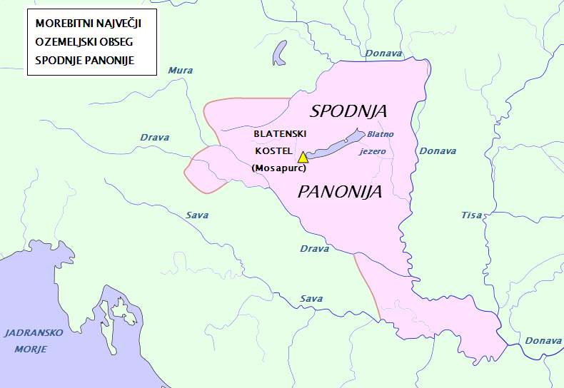 Lower Pannonia; Spodnja Panonija